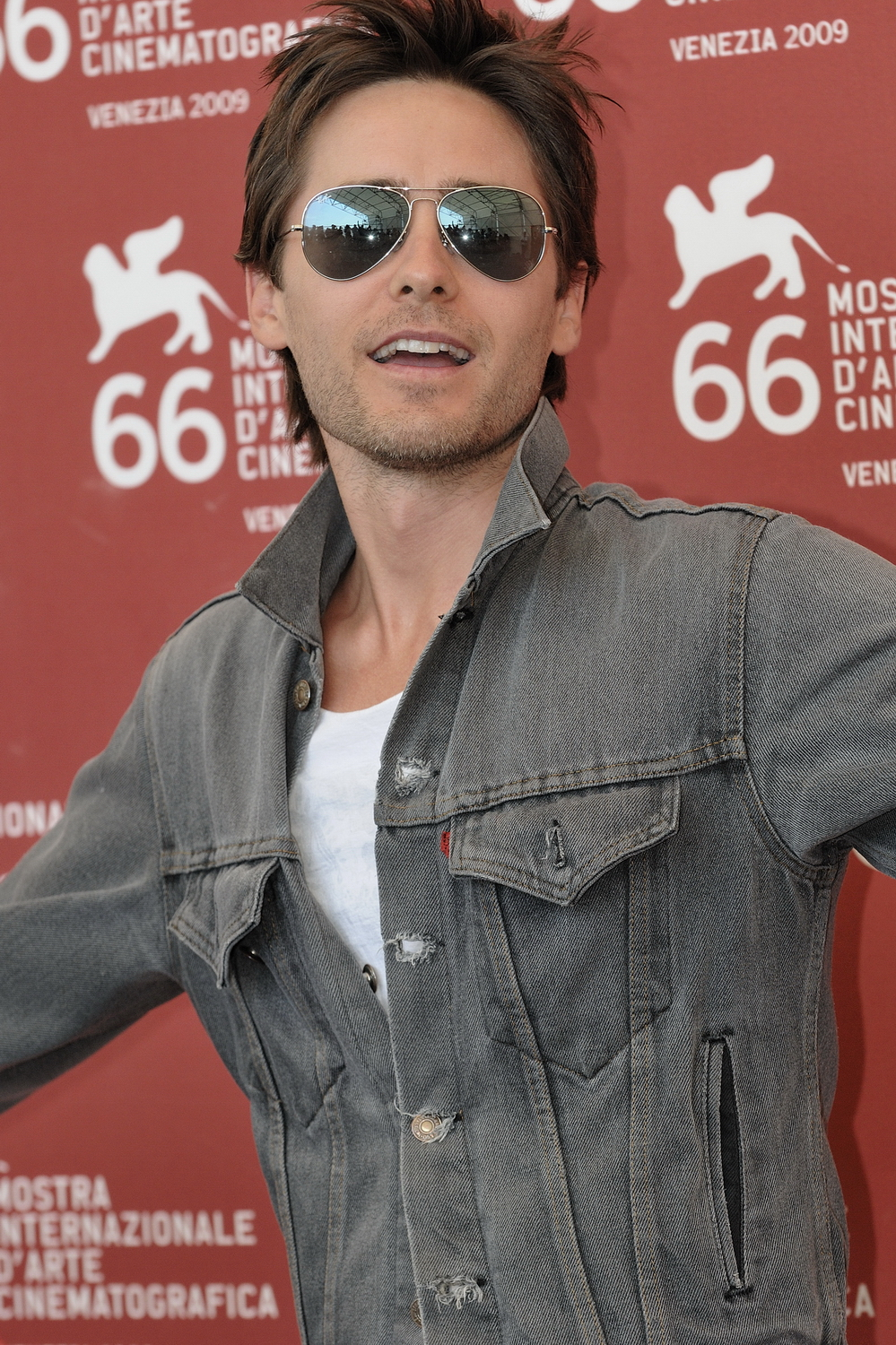 Jared Leto at the 66th Venice International Film Festival.